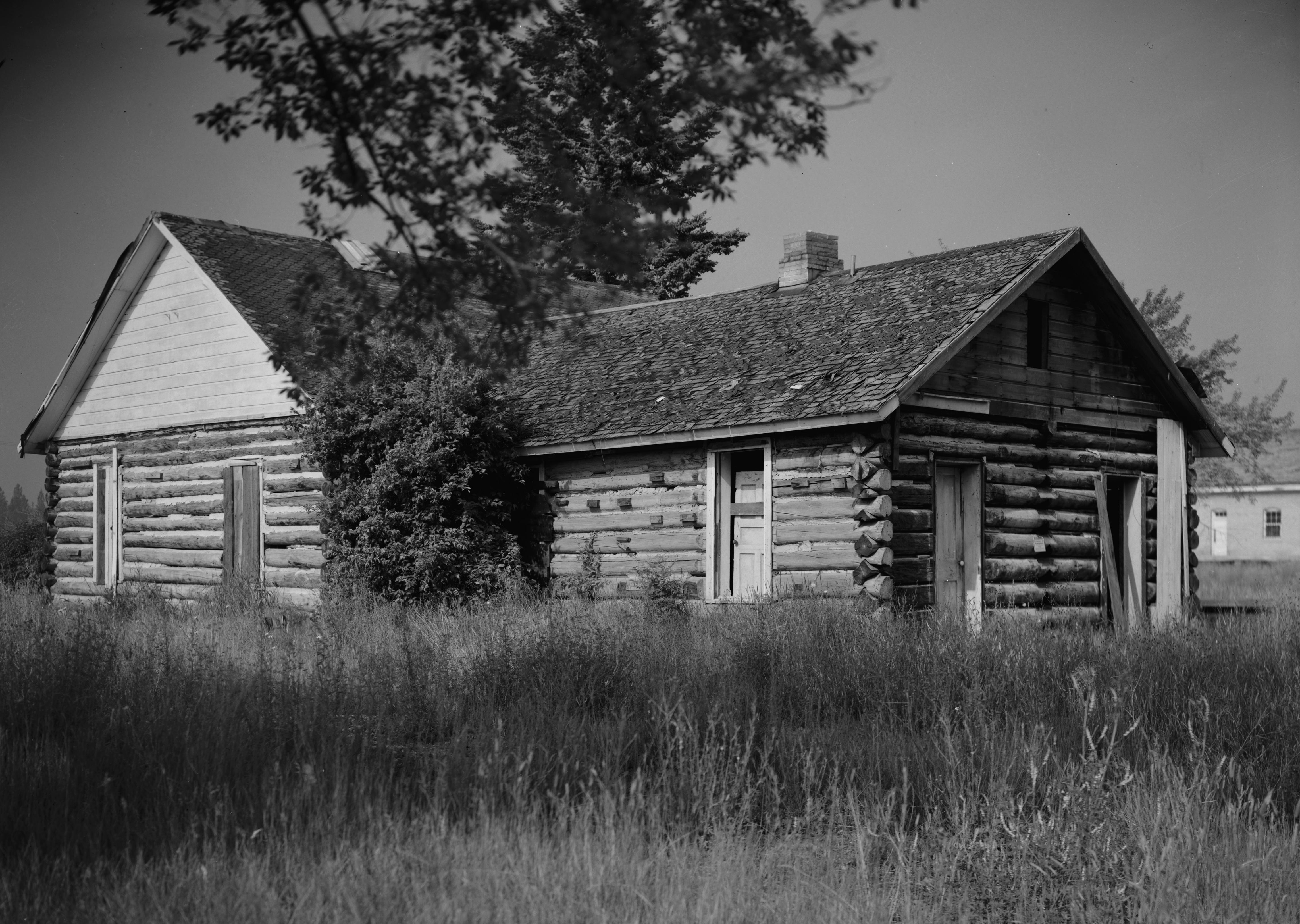 Northeastern side of a barracks for non-commissioned officers at Fort Missoula, located at the intersection of Reserve Street and South Avenue in Missoula, Montana, United States. Built in 1887, the fort complex is listed as the "Fort Missoula Historic District" on the National Register of Historic Places.